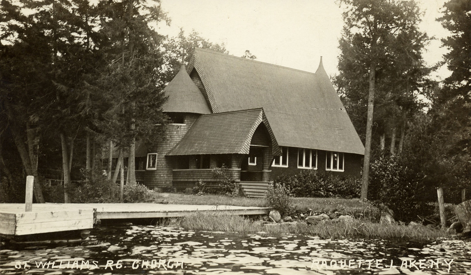 St. William's on Long Point, Raquette Lake, NY. Roman Catholic church designed in the shingle style in 1890 by the Josiah Cleveland Cady firm of New York City at the request of William West Durant for his employees and nearby residents.